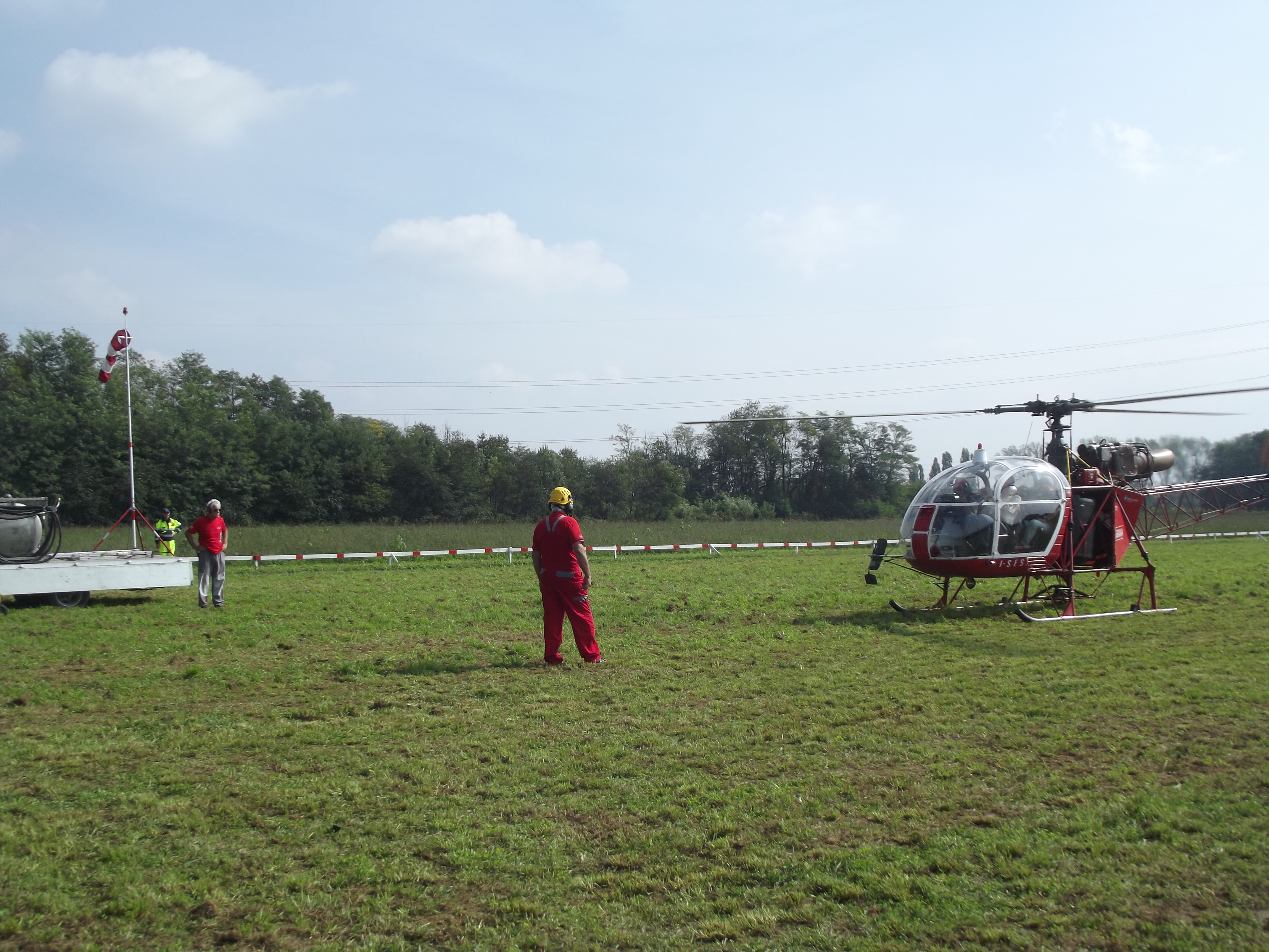 Elisuperfice Lissone